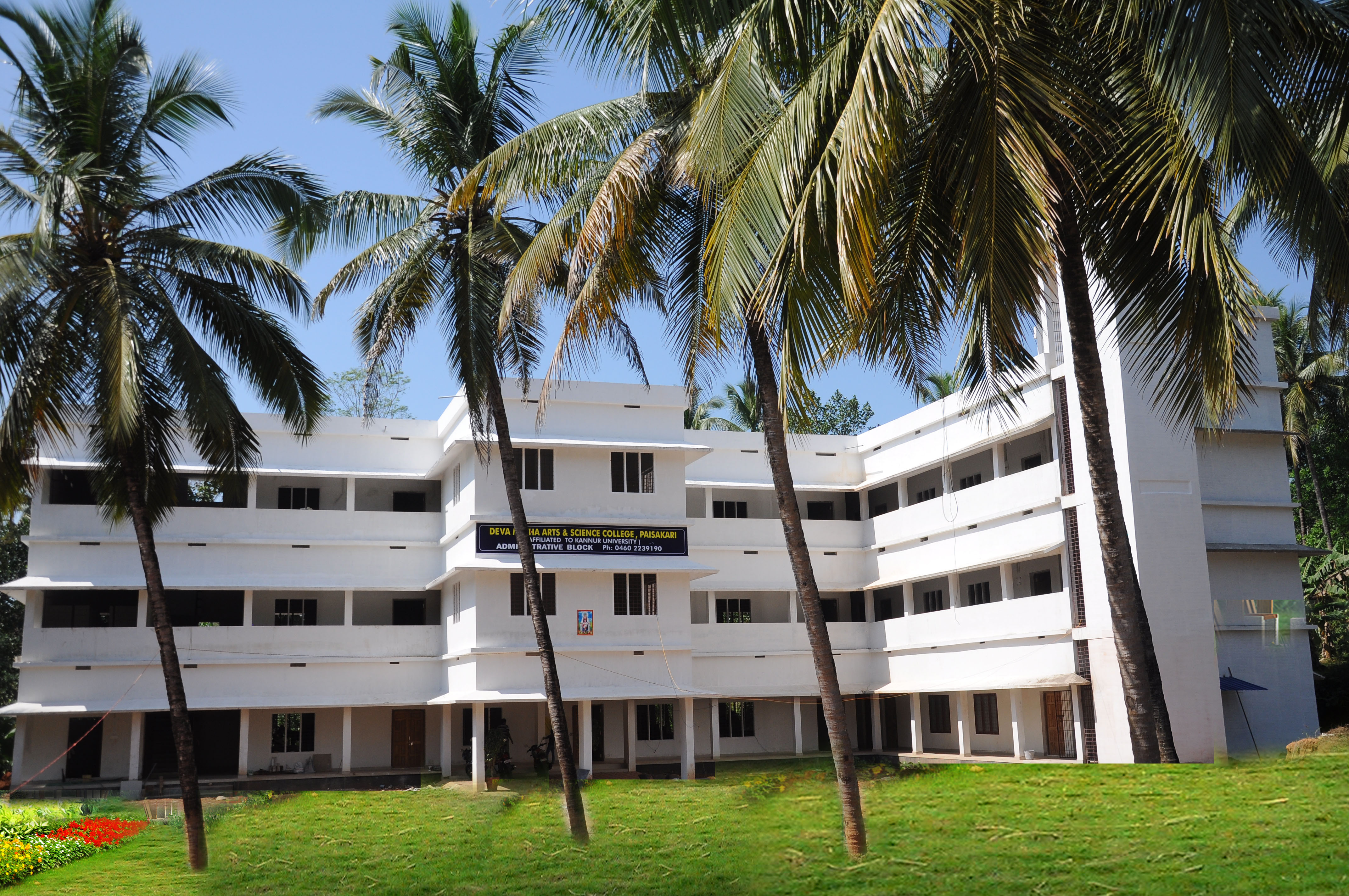 NEW BUILDING